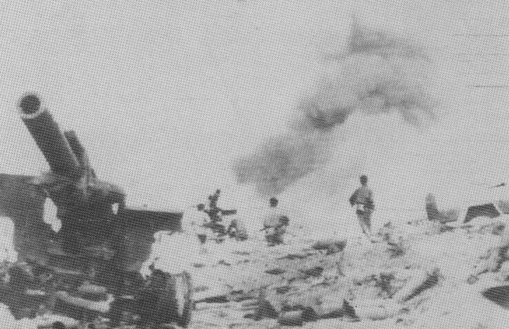 U.S. Army photo from Joel D. Meyerson when Fire Support Base Lolo falls to PAVN forces